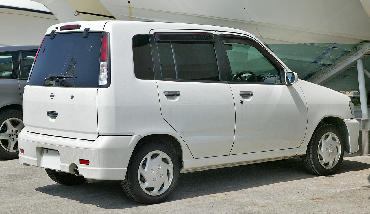 Nissan Cube ( Z10 )